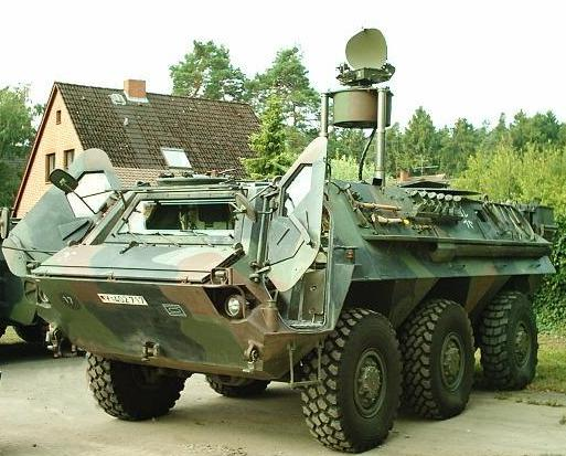 TPz1 Fuchs Reconnaissance Radar Vehicle Rasit